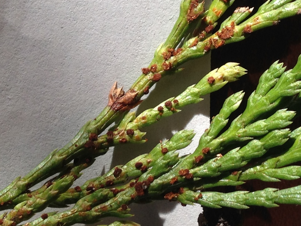 Gymnosporangium libocedri Flickr description Incense Cedar Rust, Gymnosporangium libocedri Calocedrus decurrens mixed conifer forest highway 299 (near Grays falls) Elevation 1200 feet